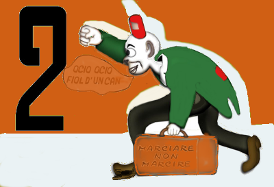 Personal details of the sign of Umberto Calvello the "Happy Hooligan"